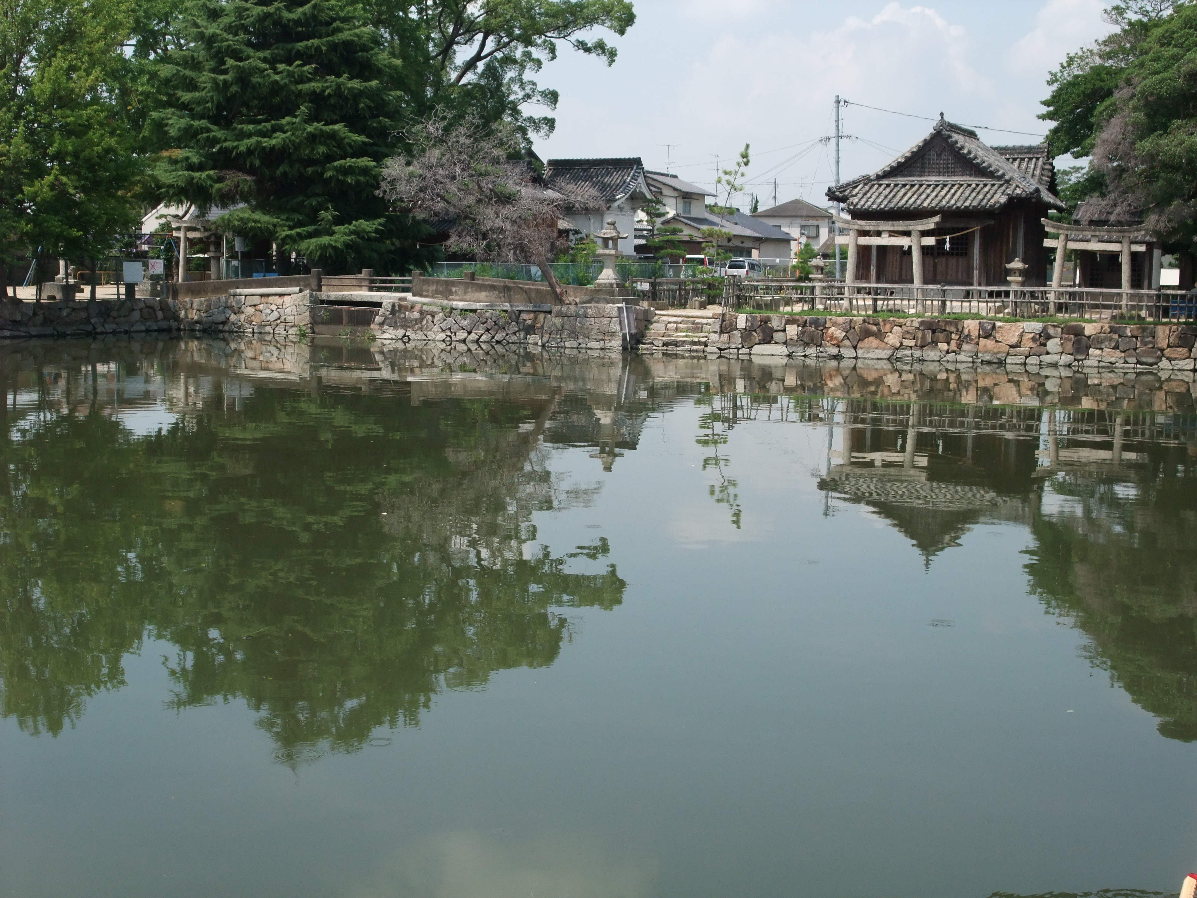 Remains of Niwase castle and moat